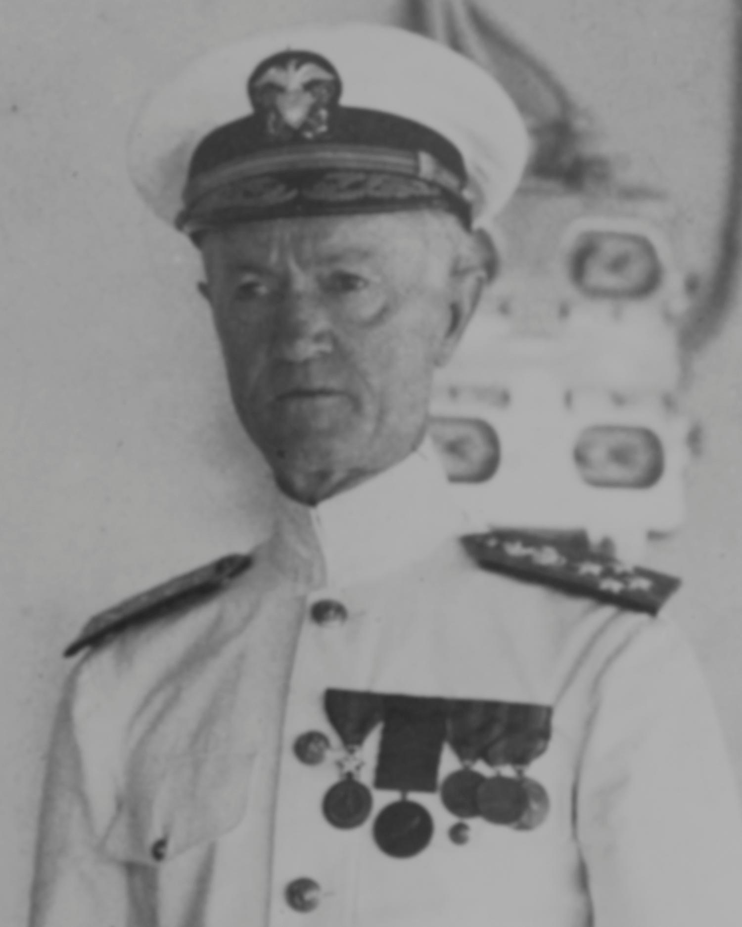 Adm. Orin G. Murfin, Commander in Chief, Asiatic Fleet until 30 October 1936.